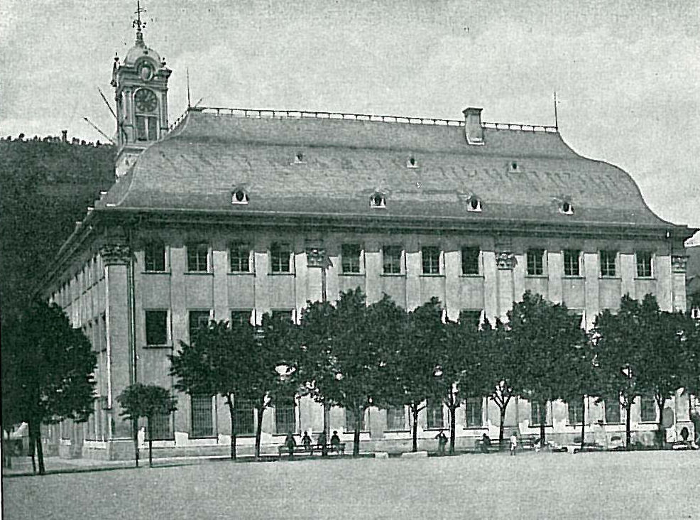 historical view of Heidelberg